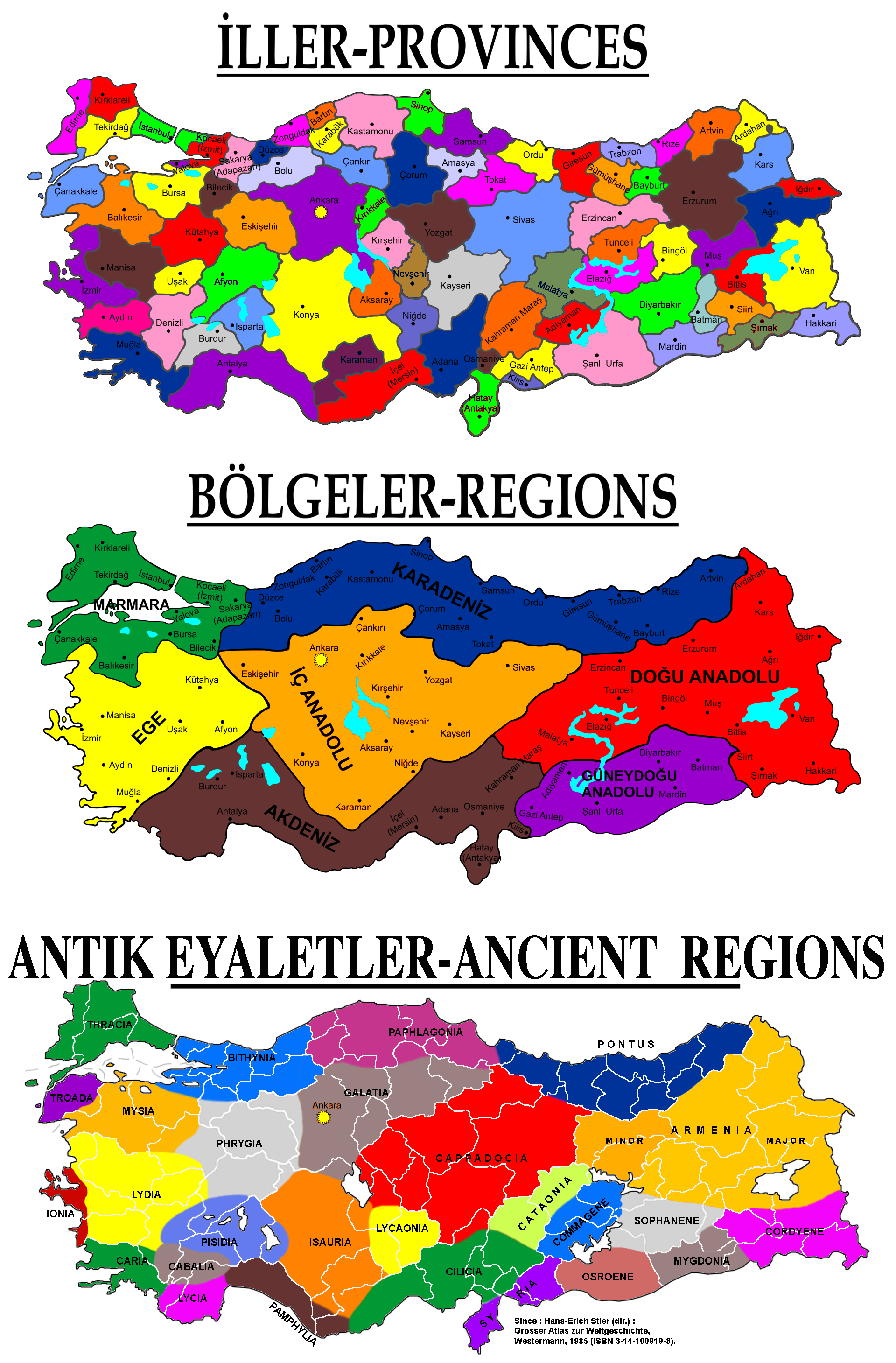 Maps of Turkey : Provinces, regions & historic lands.